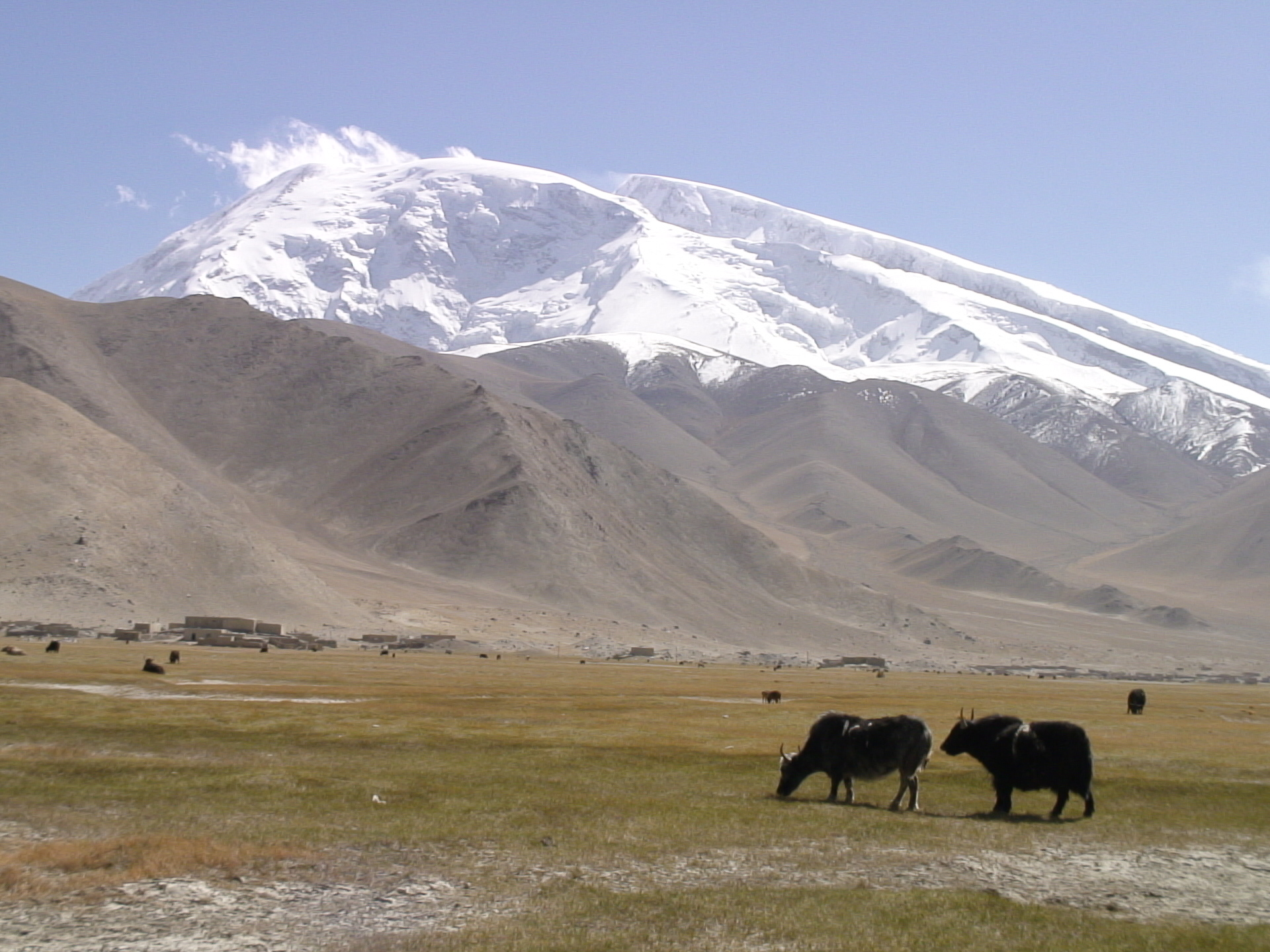 Banks of Lake Karakul (altitude : 3600 m), and the Pamir Mountains. Located between Kashgar (Xinjiang Uygur Autonomous Region of western China) and Afghanistan.